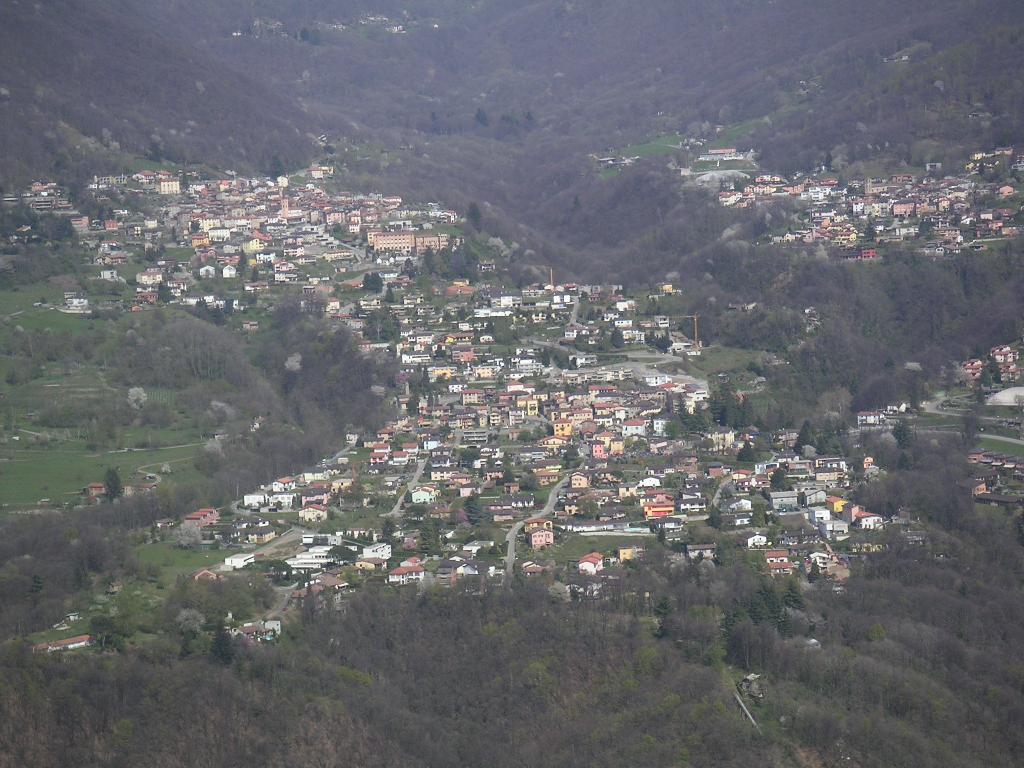 Sonvico (above left) and Dino view from San Bernardo in Comano (Switzerland)